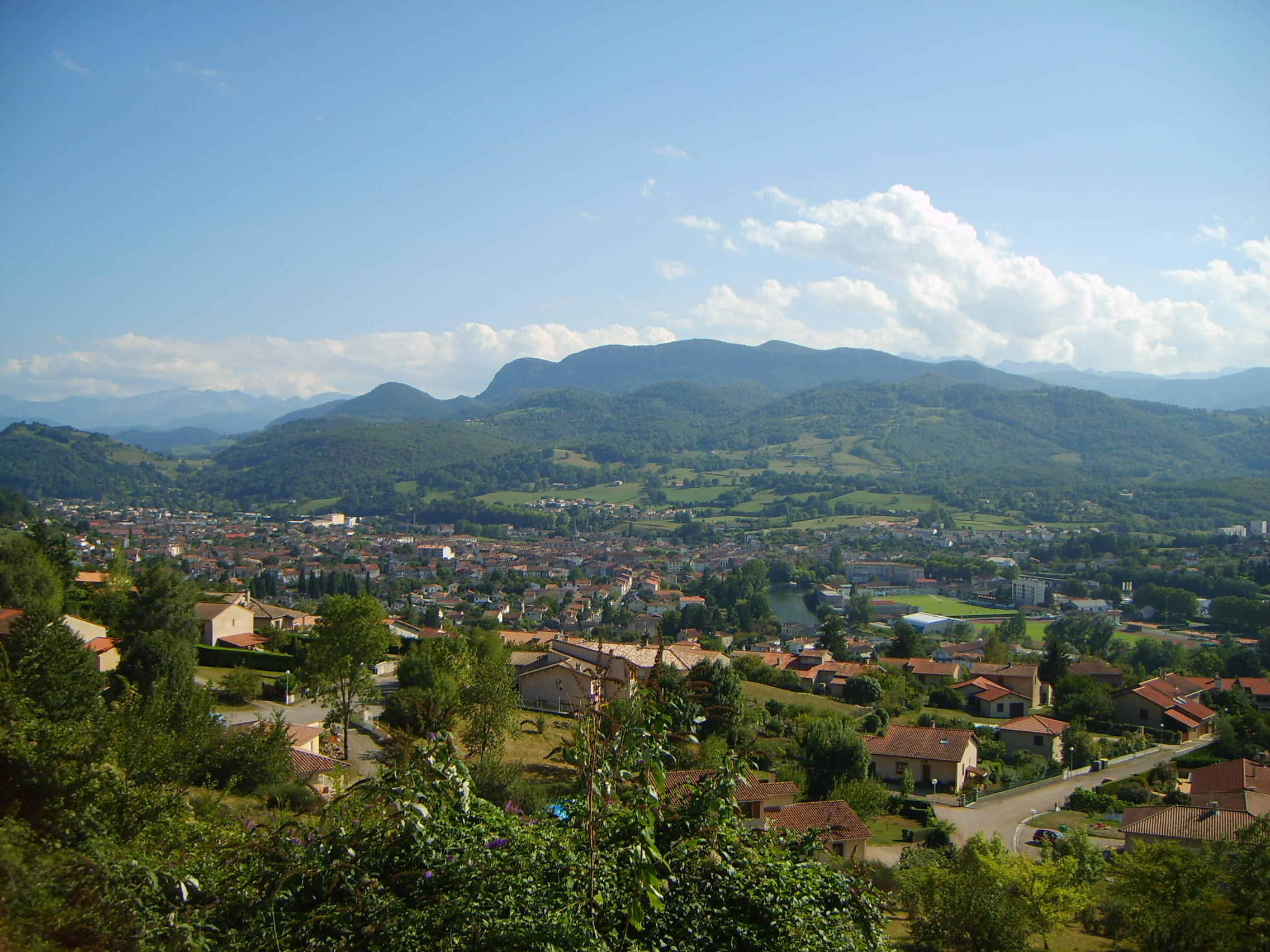 Saint-Lizier - Saint-Girons and Sourroque mountain seen from the Marsan district.